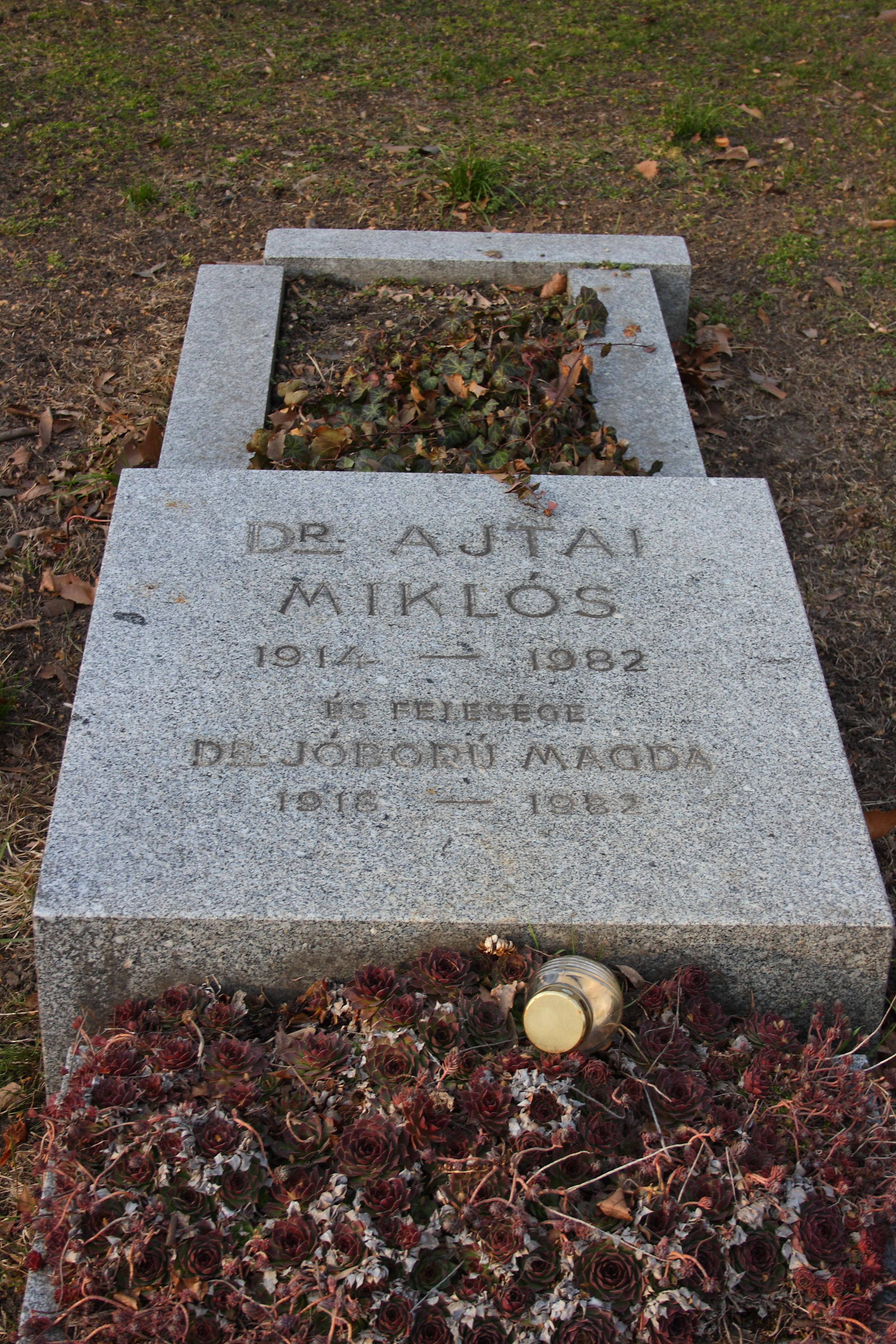 Tomb of Hungarian politician Miklós Ajtai (1914–1982) and his wife, Magda Jóború (1918–1982), director general of the National Széchényi Library in Kerepesi Cemetery, Budapest